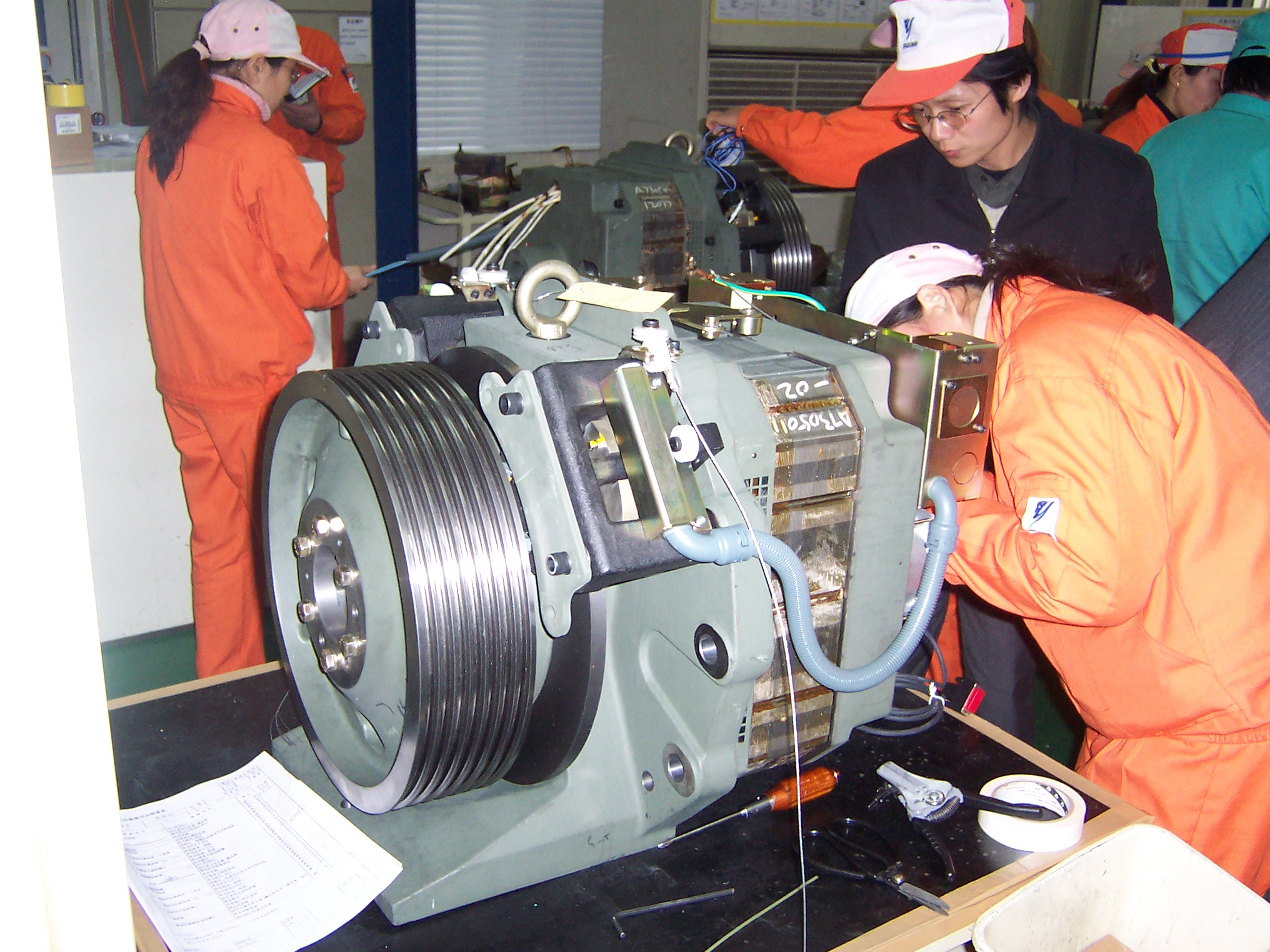 Installation of a Warner Electric elevator brake on a new Japanese traction machine